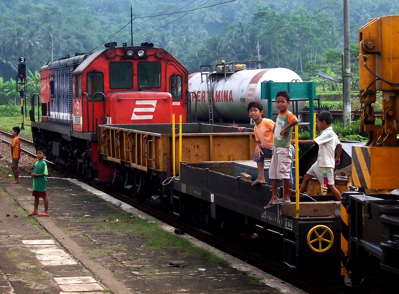 Diesel locomotive CC 201 47 from Indonesia